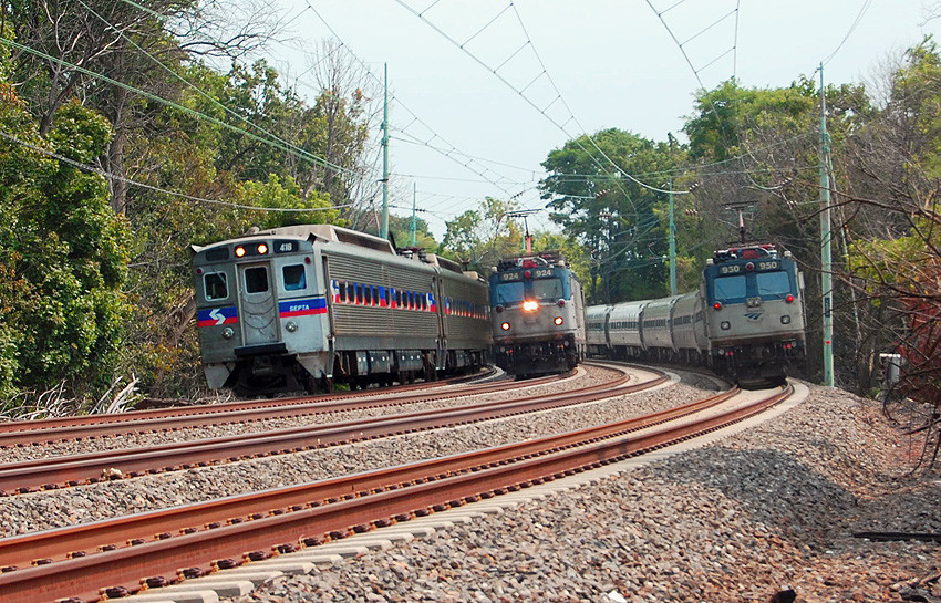 A westbound SEPTA Paoli/Thorndale Line local on Track #4, westbound Amtrak Pennsylvanian (New York to Pittsburgh) on Track #3, and eastbound Amtrak Keystone Service (Harrisburg to New York) on Track #1 all meet at the curve on the four track Keystone Corridor in Rosemont, located about eleven miles west of Philadelphia. While normally pulled by GE Genesis P42DC diesel electric locomotive, on this run the "Pennsylvanian" was being powered by a AEM-7 electric locomotive (#924) as far as Harrisburg where it would have to change to diesel as the Norfolk Southern owned grade from Harrisburg to Pittsburgh is not electrified. The eastbound "Keystone Service" train is being pushed by a AEM-7 (#950) as well. Built, owned, and operated for more than a century by the Pennsylvania Railroad, since April 1, 1976, the grade (including all stations) between Philadelphia (30th Street Station) and Harrisburg (MP 105.2) has been owned and operated by Amtrak over which SEPTA also has operating rights for its Philadelphia regional rail commuter service between Zoo Interlocking (MP 1.9) and Cork Interlocking (MP 68.1) although by agreement between SEPTA and PennDOT, revenue service is prohibited west of Parkesburg (MP 44.2), the last station in Chester County. This portion of the grade was electrified by the PRR in 1915. Photograph by Bruce C. Cooper (original uploader)